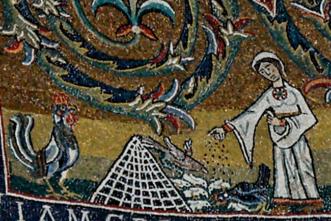 Woman feeding hens. Detail from the apsis mosaic from Basilica San Clemente in Rome, 12th century.